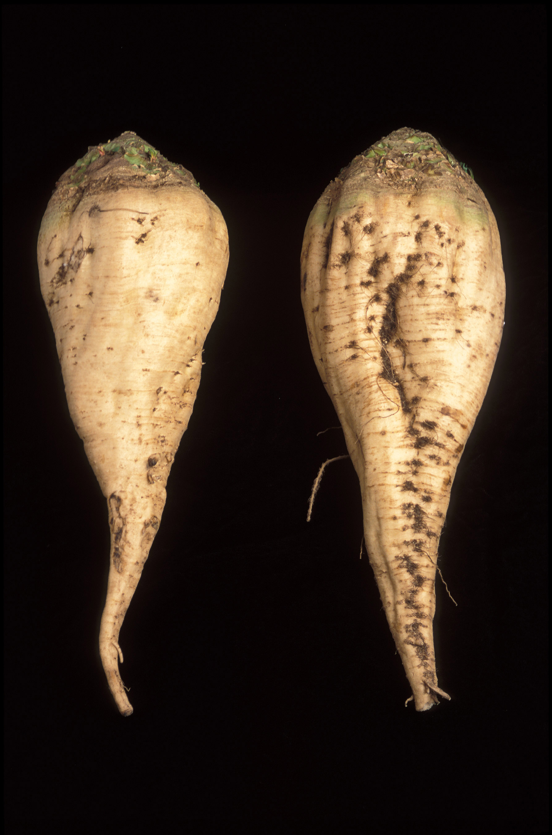 Two sugar beet roots. The one on the right is a traditional sugar beet. The one on the left, is a cultivated variety call SR96, which has been selected for its smoother root that collects less soil and needs less washing during processing. USDA photo by Peggy Greb. Image Number K11128-1.